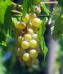 Derivative of Commons file File:Radebeul Prie Blanc Traube September2013.jpg by Jbergner released under a Creative Commons Attribution-Share Alike 3.0 Unported license. Cropped to get better image of grape